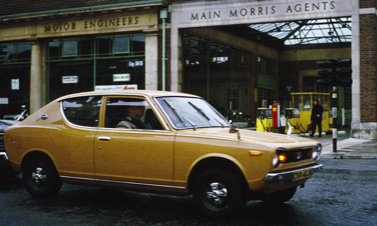 Datsun Cherry first iteration (at least for Europe) in front of a Morris dealer in Canterbury